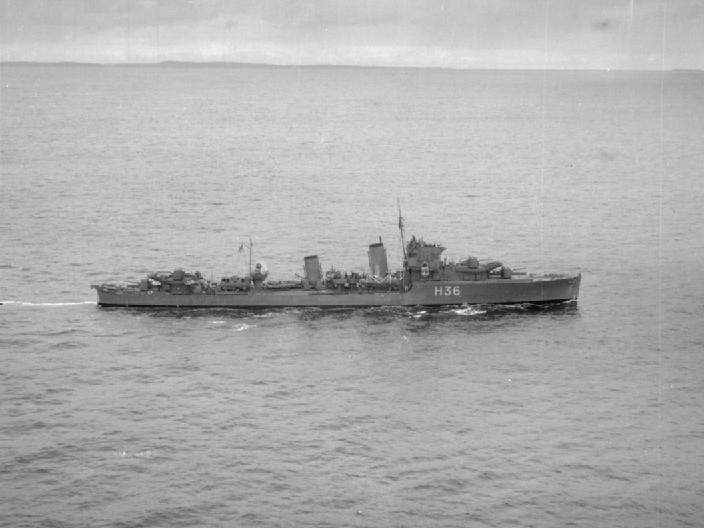 Aerial photograph of British destroyer HMS ANTELOPE underway, coastal waters. Pennant No H36